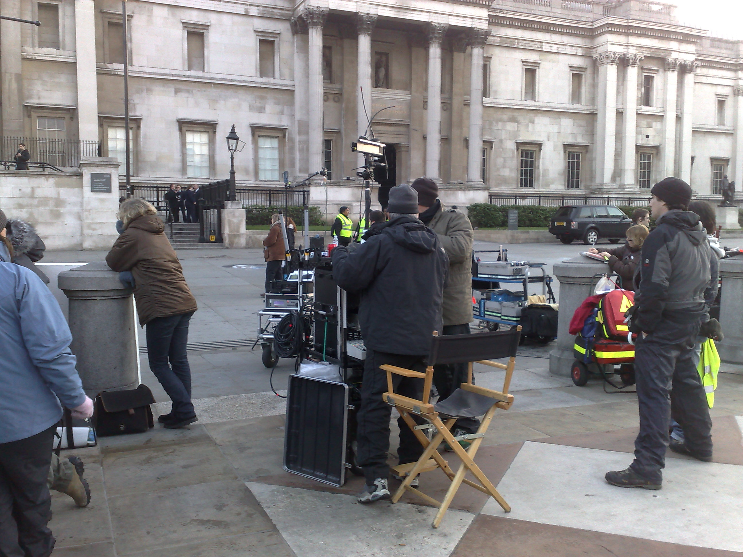 THe boat that rocked filming